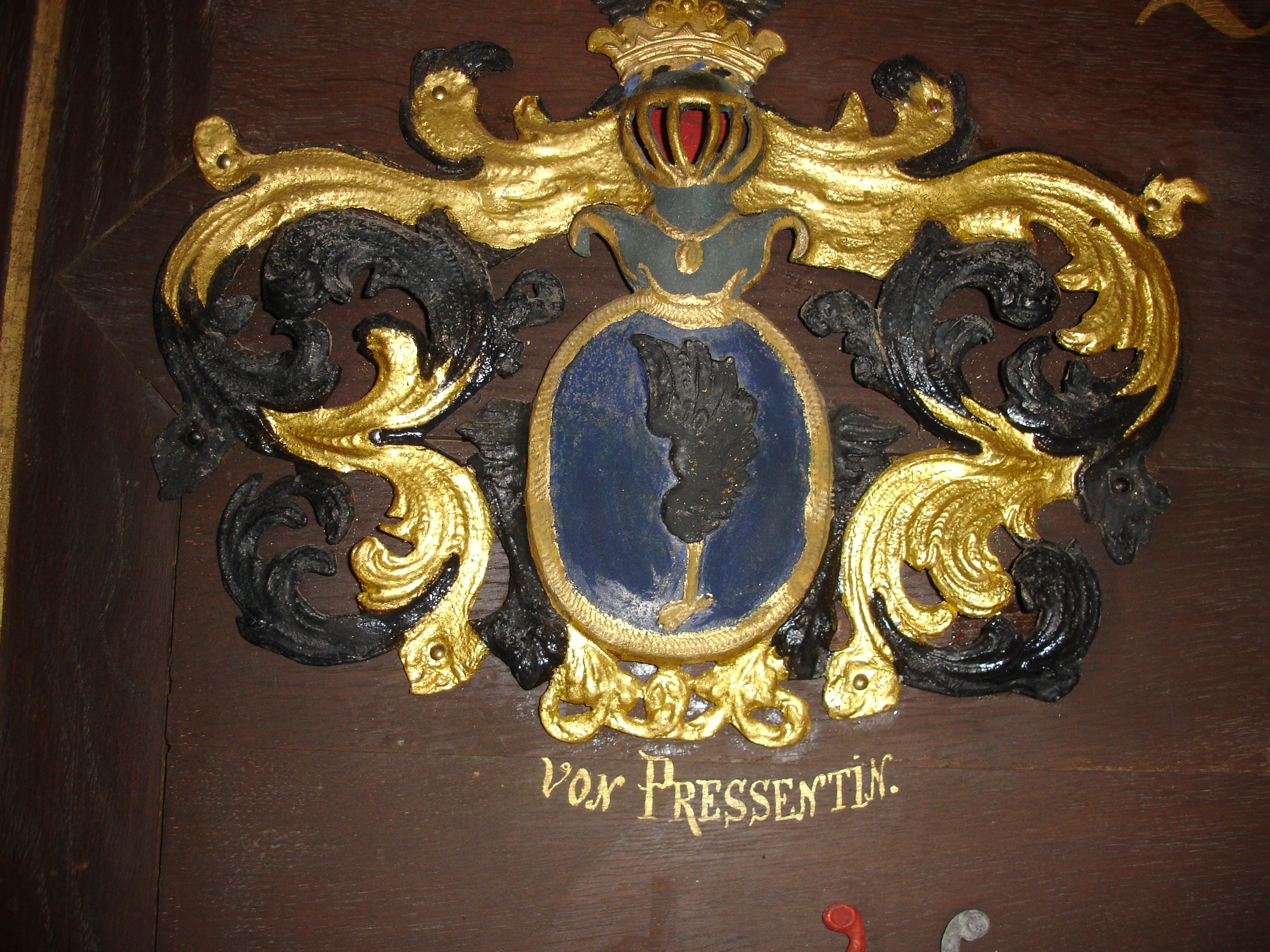 Church in Groß Brütz, district Nordwestmecklenburg, Mecklenburg-Vorpommern, Germany